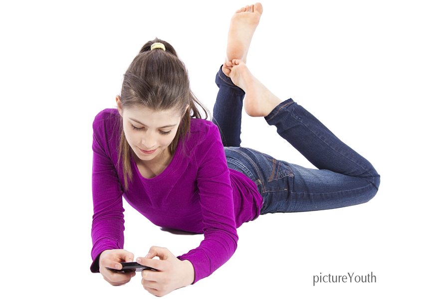 Young girl lying on the ground, using a smart phone. She's wearing jeans, a purple top and is barefoot. Her hair is in a ponytail. Original caption: This image may be used according to the Creative Commons license assigned to it provided PictureYouth is credited as the source. It may not be used for any inappropriate purpose! If you have any questions please email us. . If you would like to further license this image, obtain it full-size, or to see more of this model please visit our site links below. WEBSITE - GALLERY - VIDEOS . Image © pictureYouth .